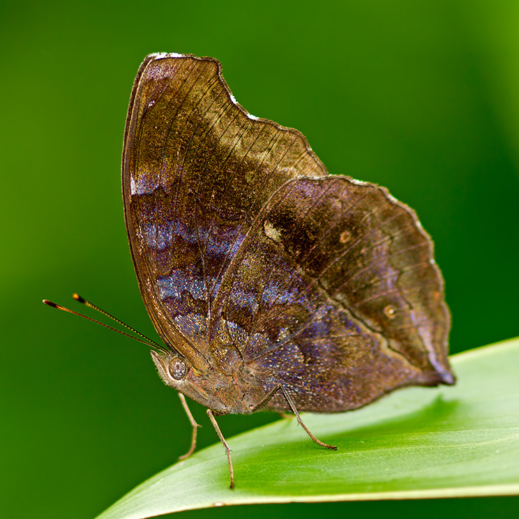 Junonia iphita, the chocolate pansy or chocolate soldier